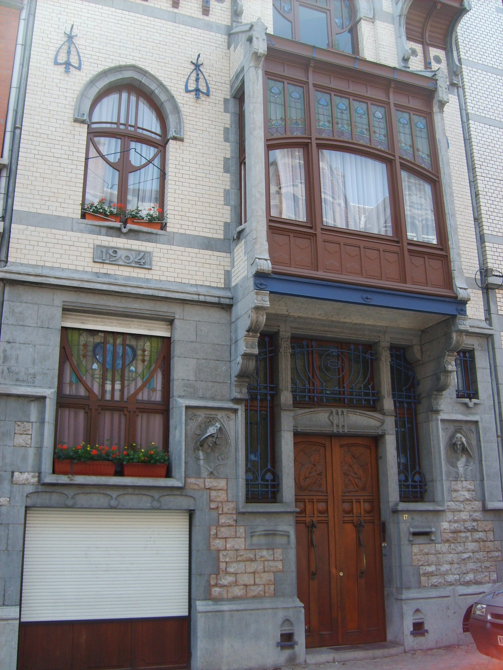 Maison Piot in Liège, Wallonia, Belgium.